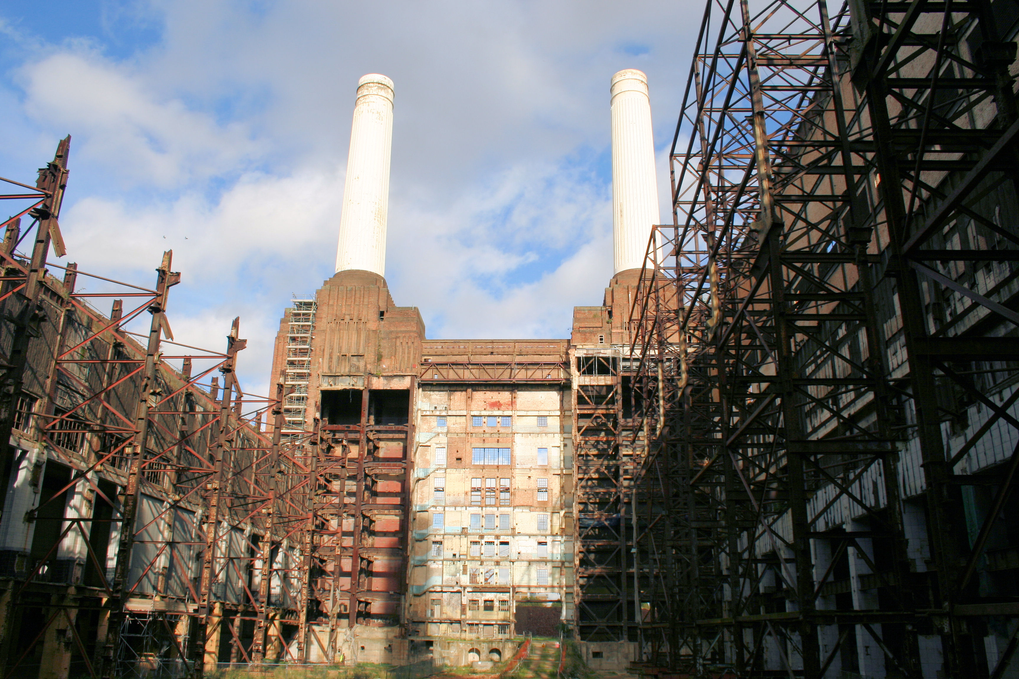 Taken by Ian Mansfield, inside Battersea Power Station on 21st October 2006. The power station was open to the public for the first time for an art installation, China Power Station Part 1 - organised by the Serpentine Gallery.